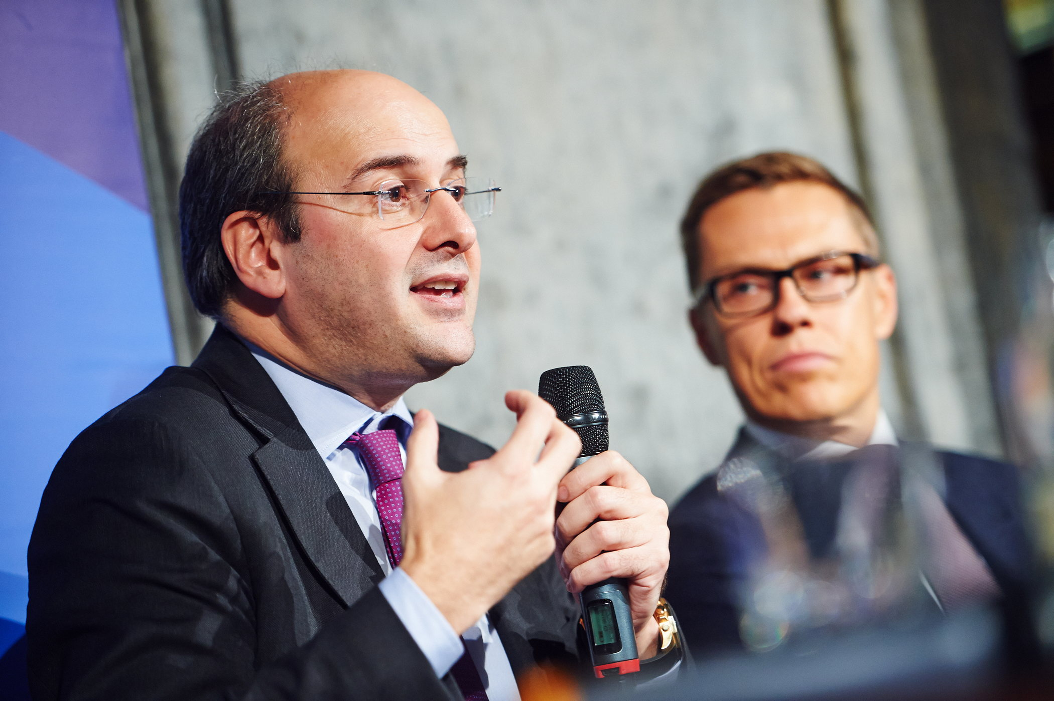 4th EPP St Géry Dialogue; Jan. 2014